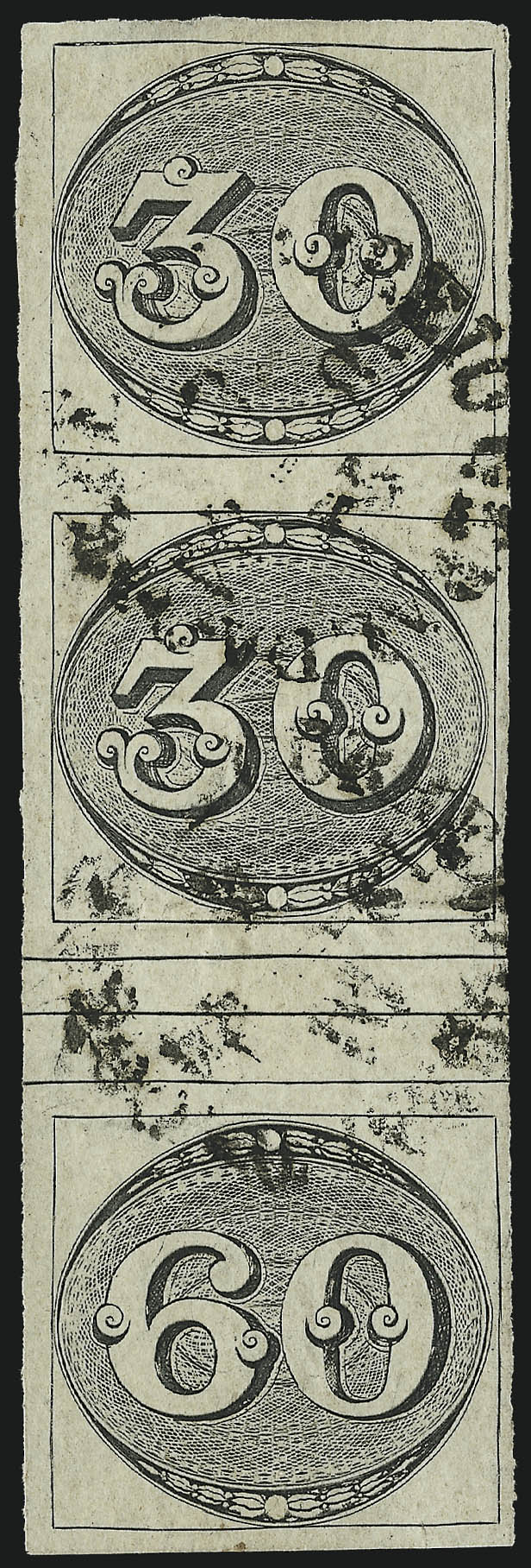 1843, 30r/30r/60r Black, Se-Tenant Strip of Three (1d). 2nd Composite Plate, State D, 30r Positions 11/17, 60c Position 5, vertical strip of three from the 30r and 60r panes, the Xiphopagus Triplet with interpanneau dividing line between 30r and 60r values, full to large margins, cancelled by two strikes of "Correio Geral da Corte" circular datestamp (1844 yeardate is readable).